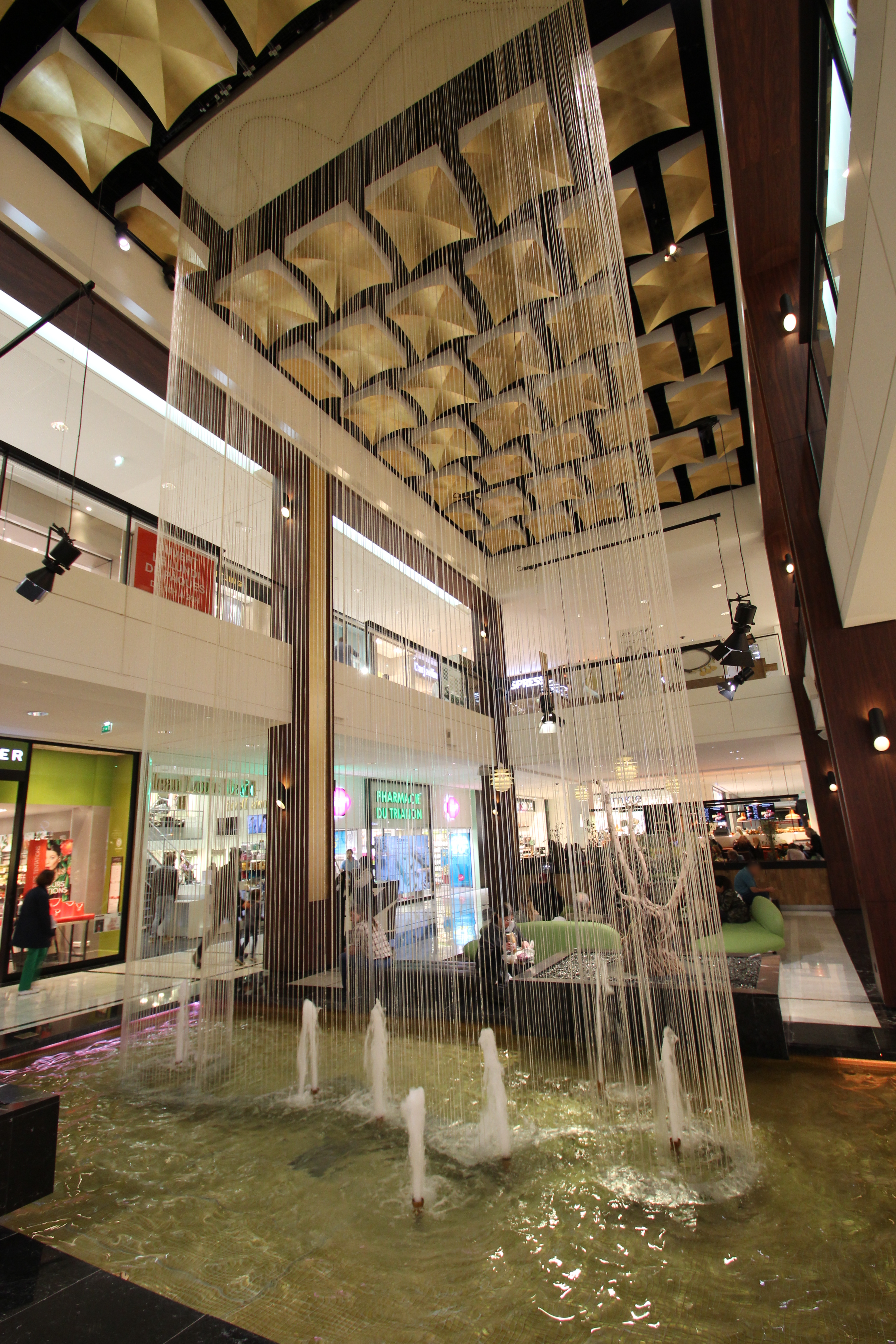 Wire fountains by Claude Balick in Parly 2, a shopping mall in Le Chesnay, France. Object location48° 49′ 16.9″ N, 2° 06′ 53.06″ E